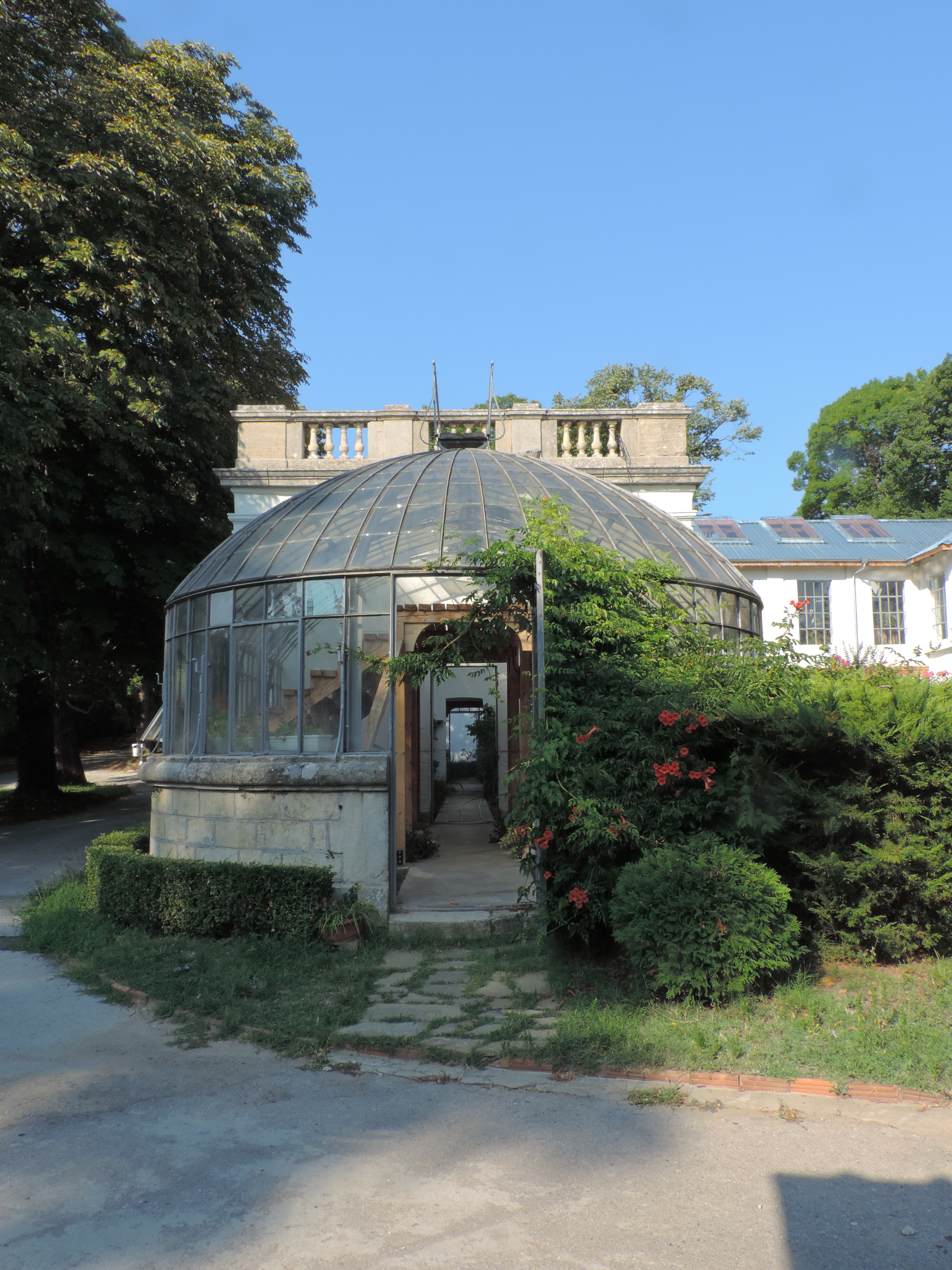 Euxinograd is a late 19th-century Bulgarian former royal summer palace and park on the Black Sea coast, 8 kilometres (5.0 mi) north of downtown Varna. The palace is currently a governmental and presidential retreat hosting cabinet meetings in the summer and offering access for tourists to several villas and hotels. Since 2007, it is also the venue of the Operosa opera festival. Euxinograd is situated at an altitude of 49 m. The park and palace were closed until the summer of 2016 due to extensive renovations.